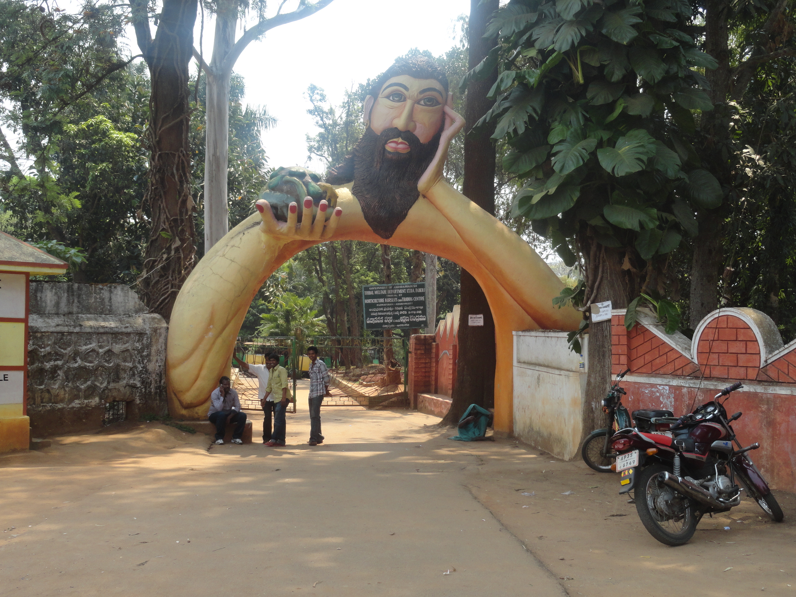 Entrance of Padmapuram gardens. Arakuvalley